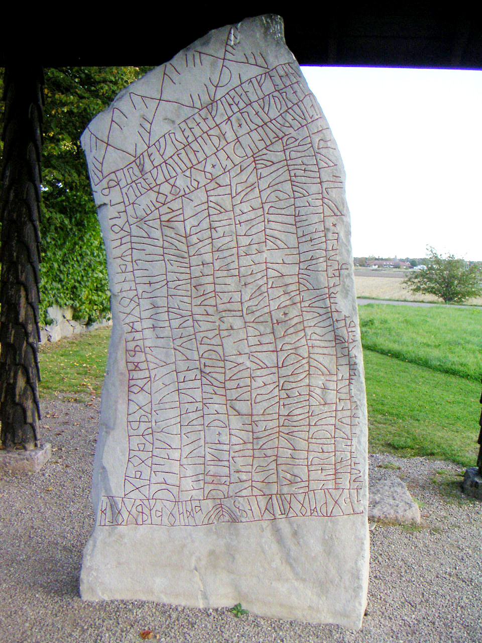 Location: Near Ödeshög in south Sweden